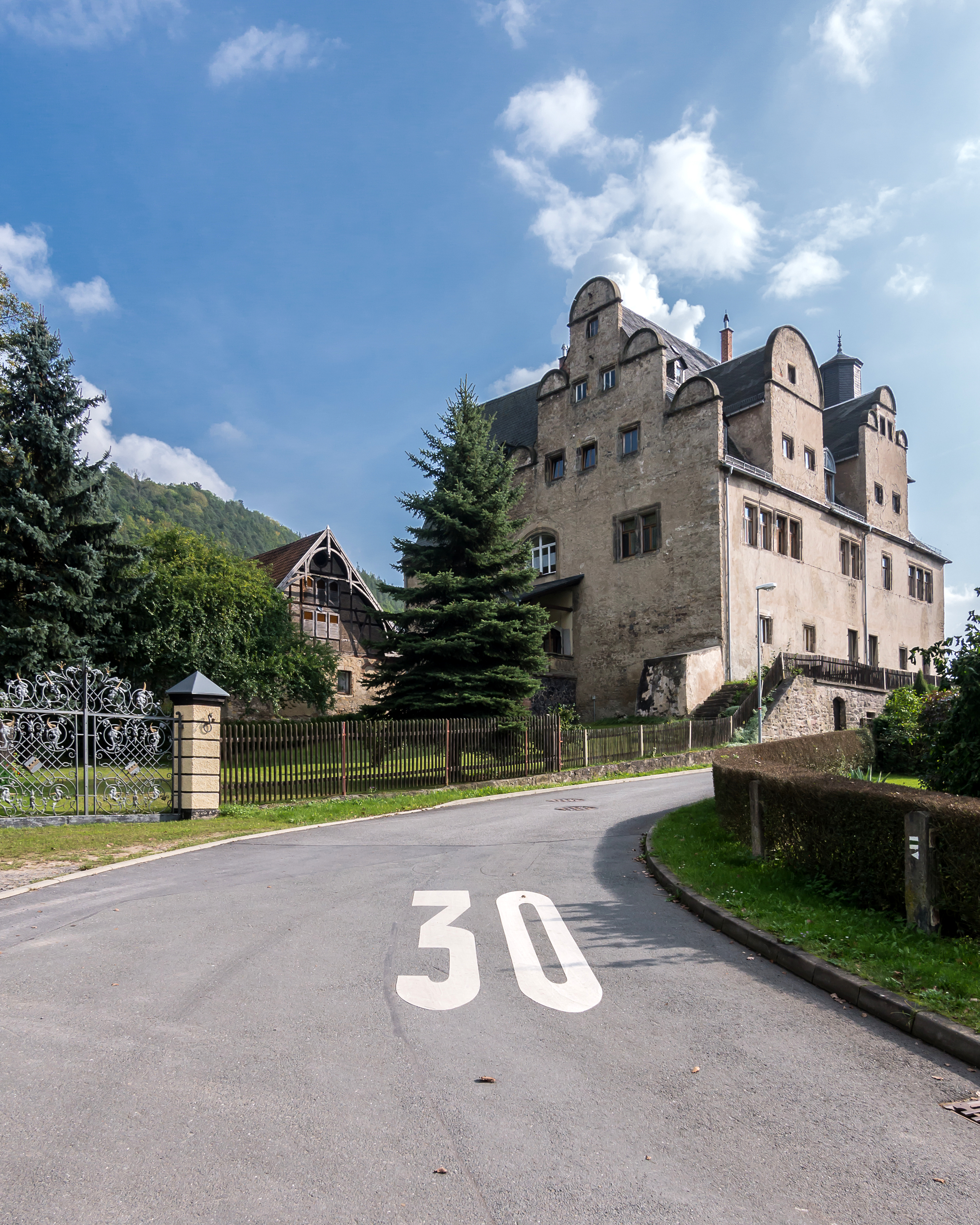 Obernitz Janusz-Korczak-Straße 1-3 Schloß Gesamtanlage